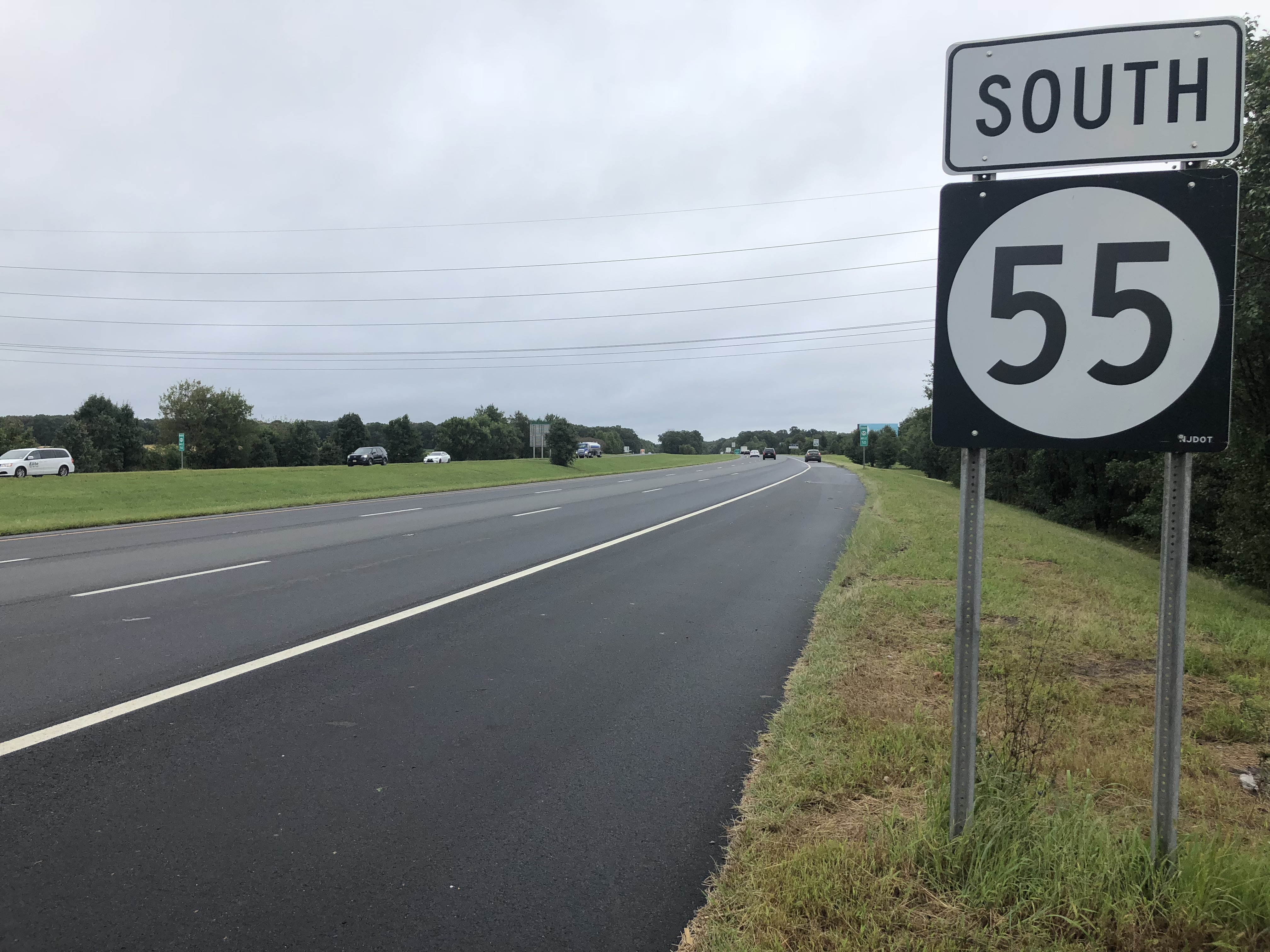 View south along New Jersey State Route 55 (Cape May Expressway) just south of Exit 50 in Harrison Township, Gloucester County, New Jersey